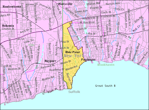 U.S. Census 2000 reference map for Blue Point